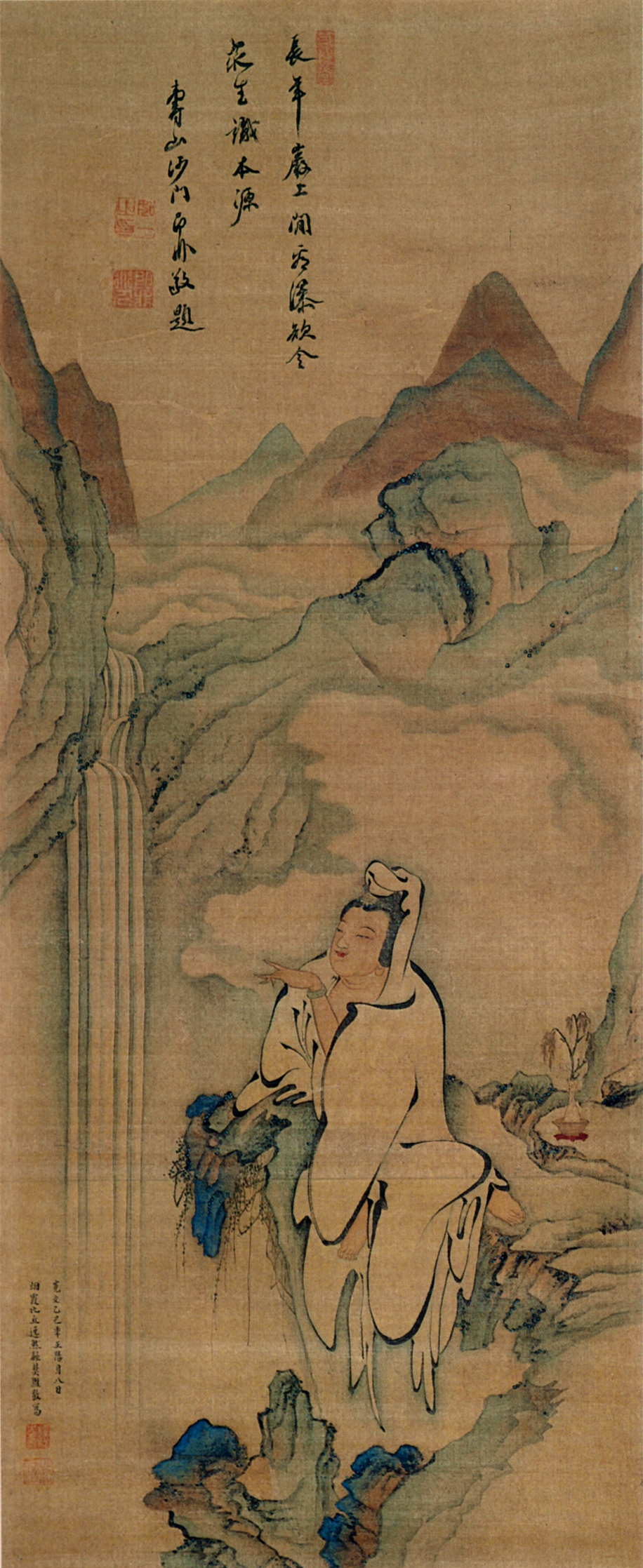 White-robed Kannon Looking at Waterfall,Yiran,Inscription by Jifei,Hanging scroll,color on silk,Nagasaki Museum of History and Culture